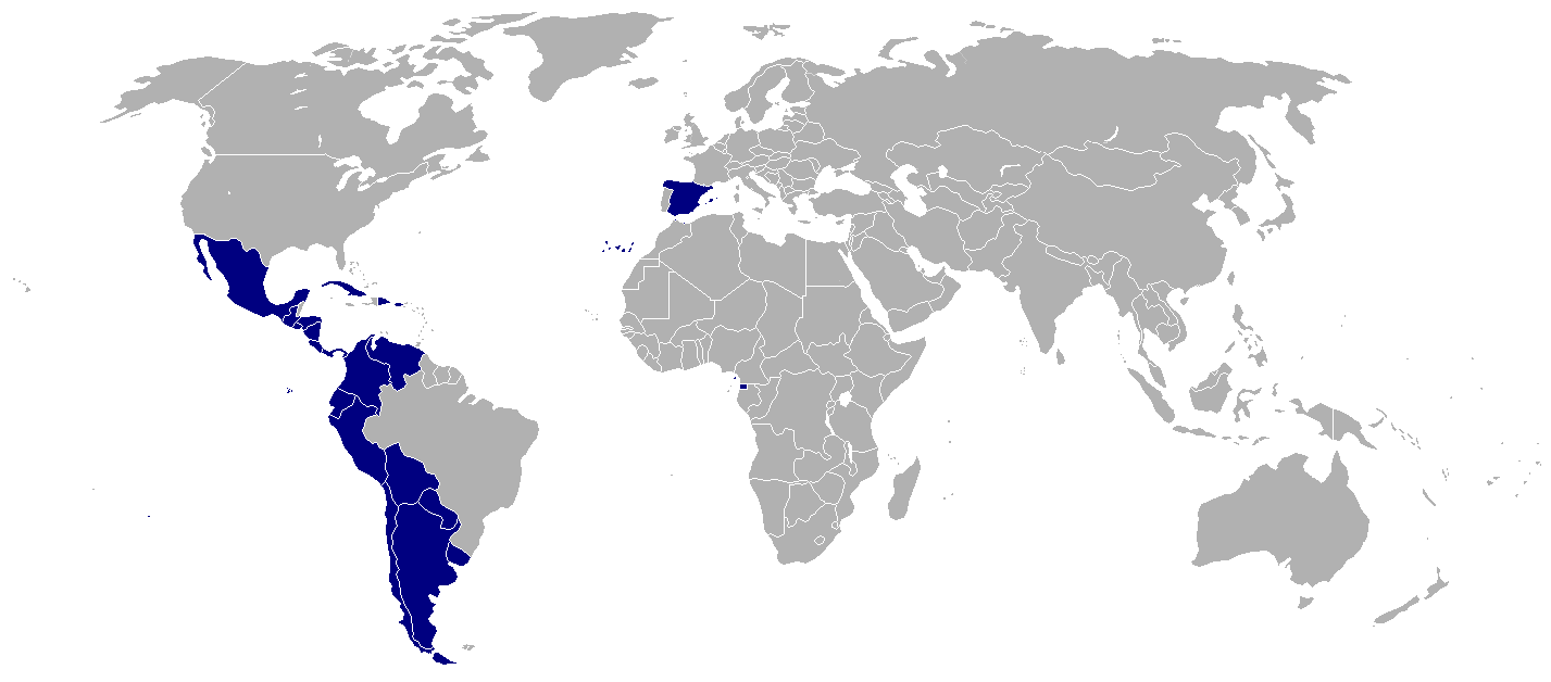 This map shows the countries that are traditonally considered as the core of the Hispanidad (because they have Spanish as official language and it is the main language of the country, or because they have been historically important in the creation of the Hispanophone). Note that this is not the same as the Hispanophone map, which shows all the parts of the World where Spanish or its créole languages are spoken.